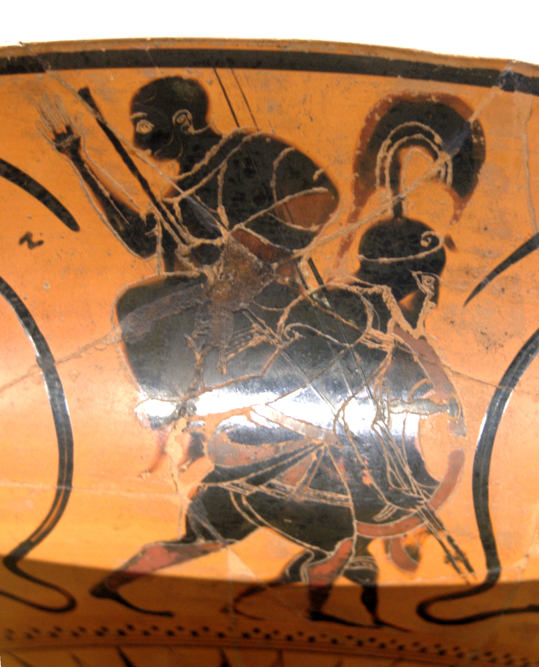 Aeneas carrying Anchises, Ascanius in background (legs). Side A from an Attic black-figure eye-cup, ca. 520 BC. From Vulci.